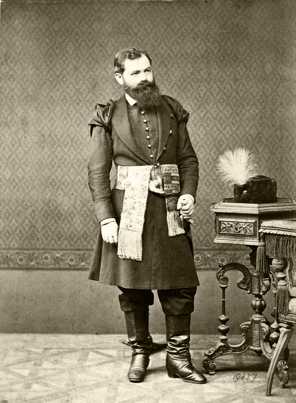 picture of Bernard Goldman